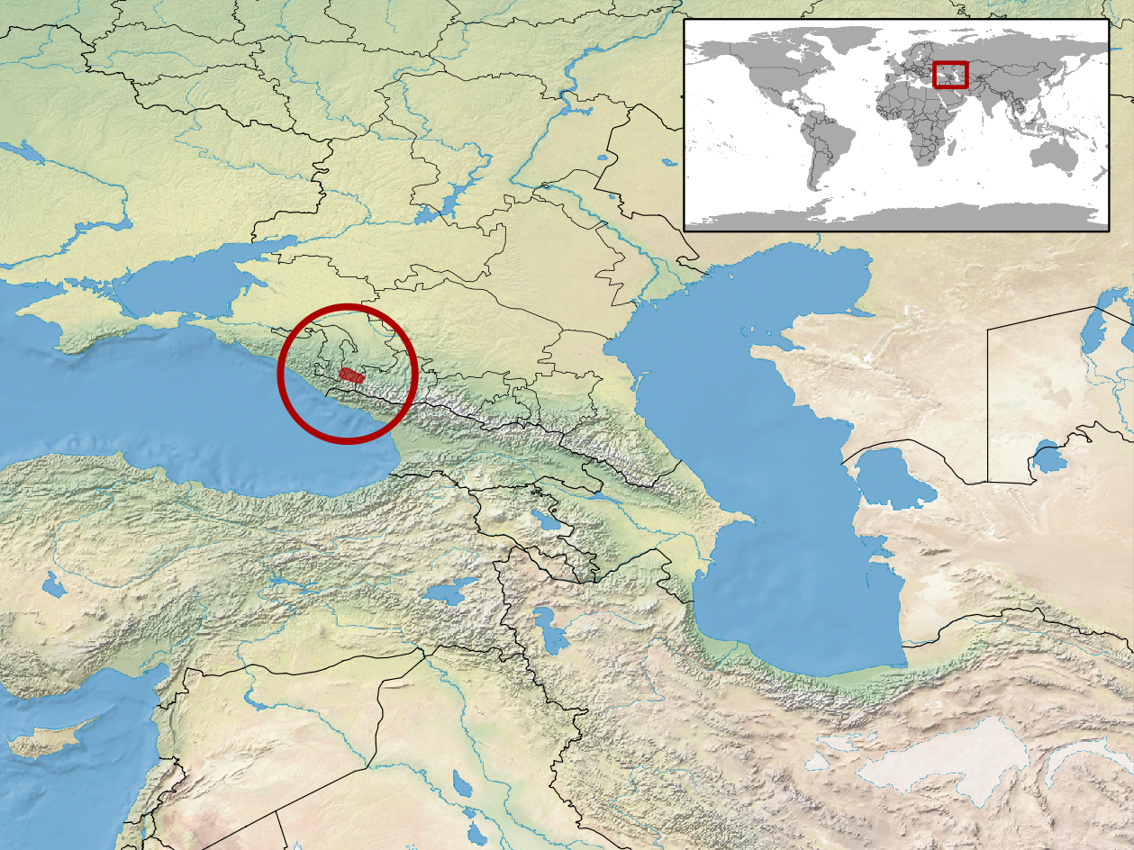 geographic distribution of Vipera magnifica (Native: Russian Federation)